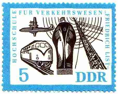 GDR stamp of 1962. 10th anniversary of ?